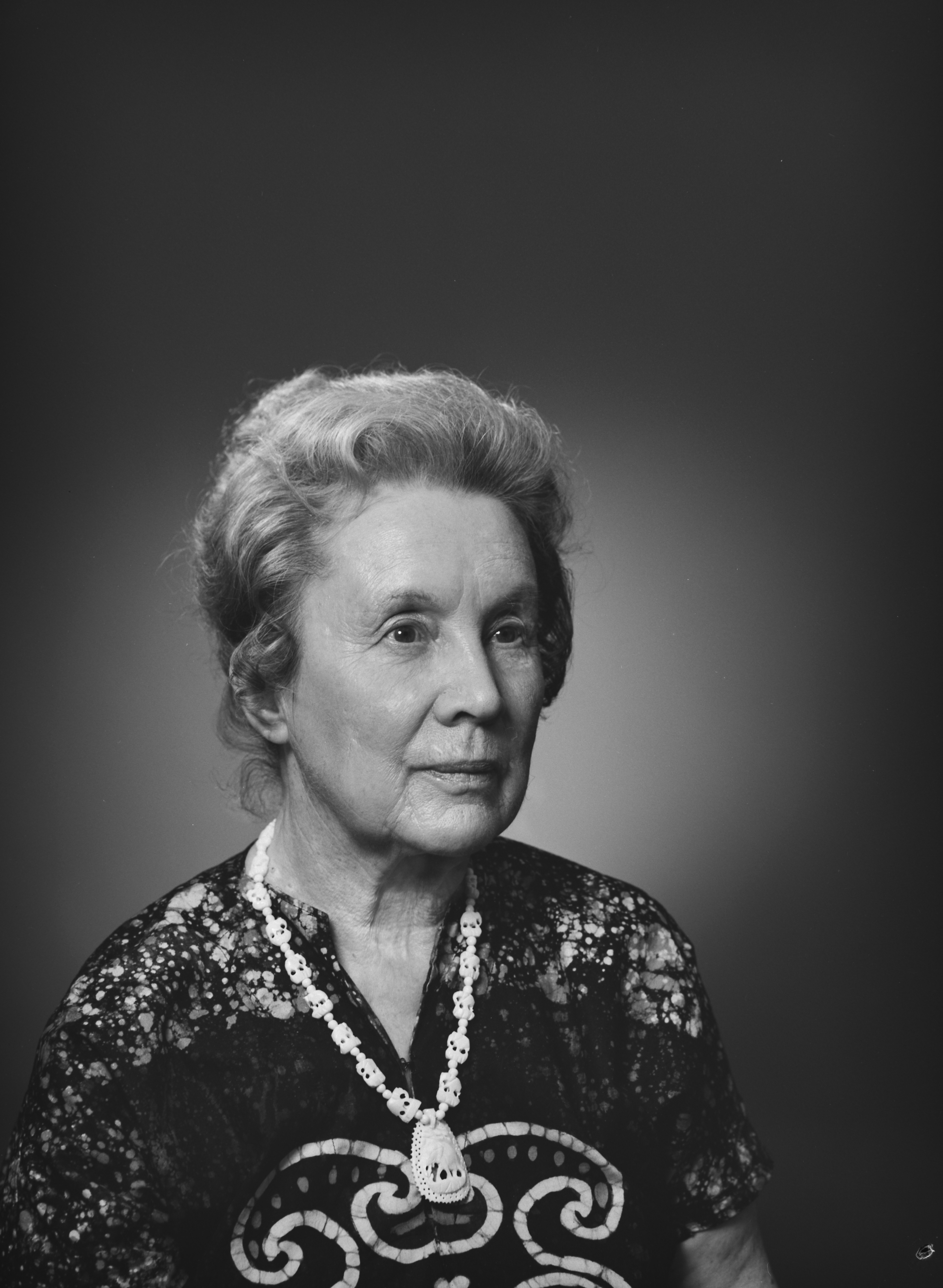 Photograph of the Finnish textile designer Eva Anttila (1894–1993).